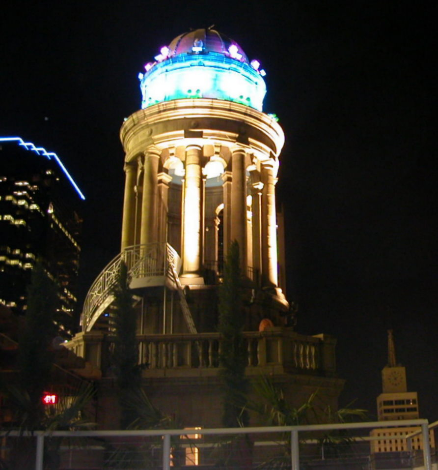 Davis and Magnolia